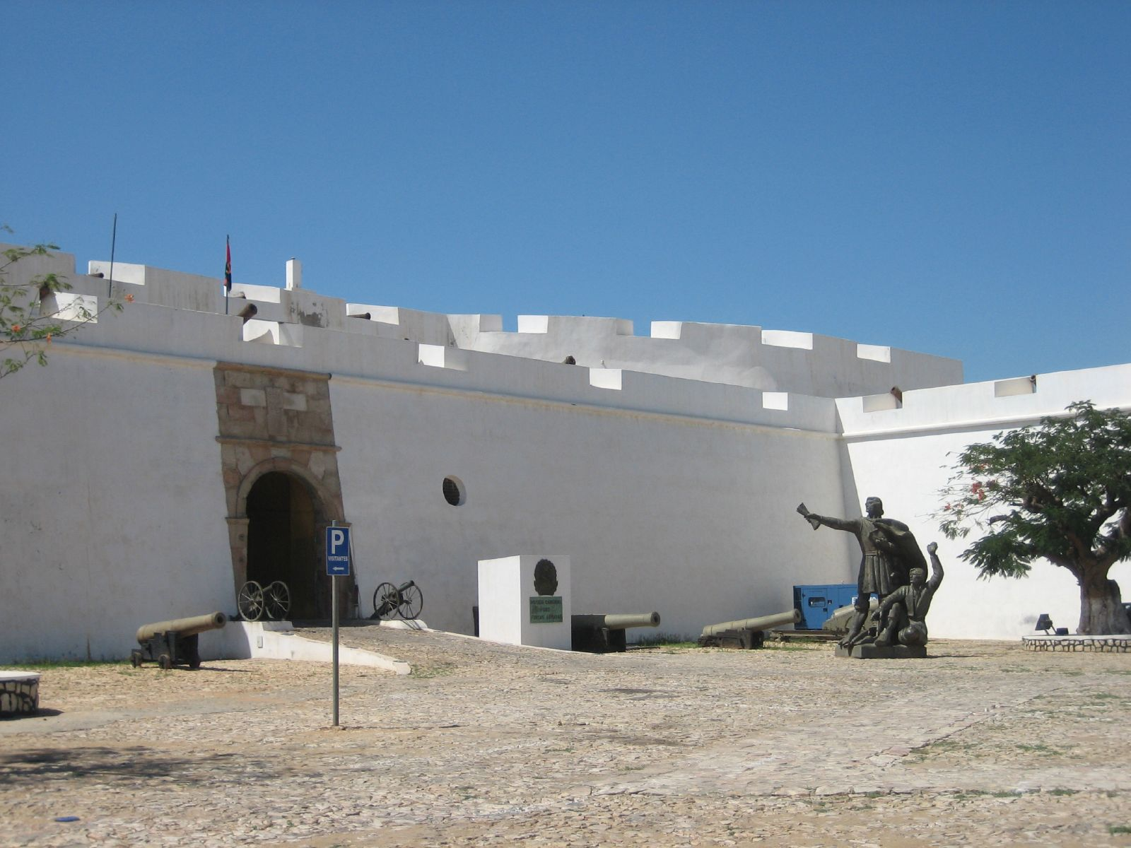 Entrance to São Miguel Fortress in Luanda, Angola